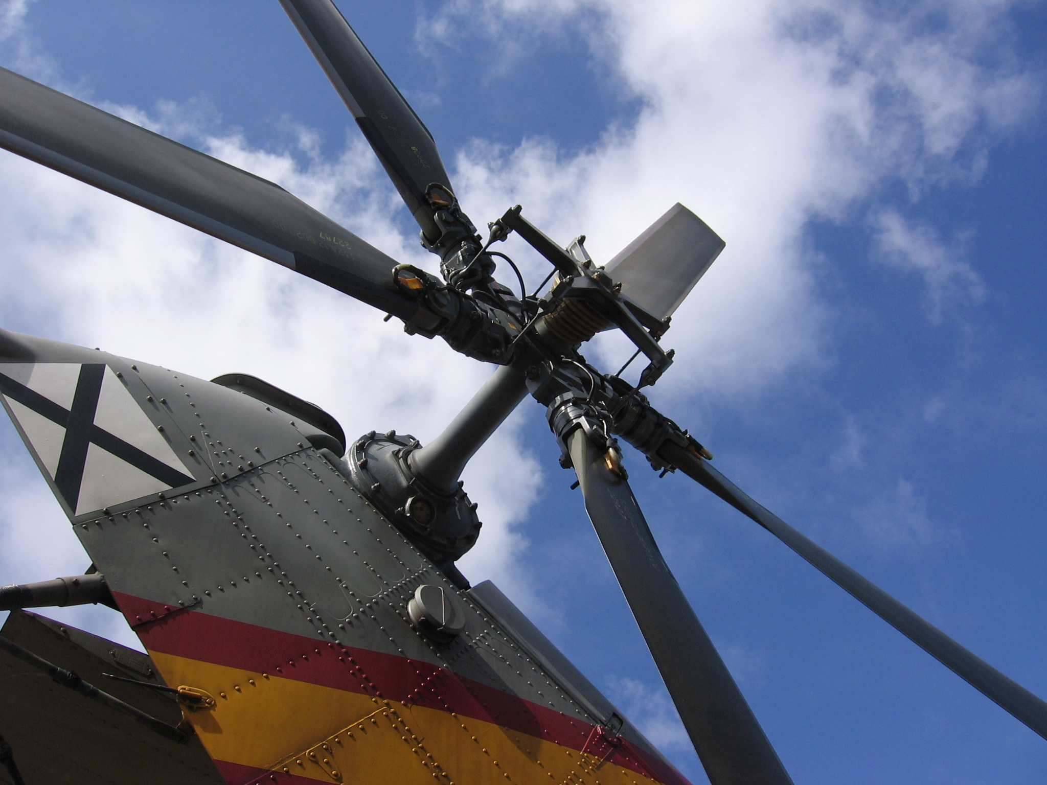 Tail rotor of an Aérospatiale Puma of the 801 Squadron of Air Forces (Spanish Air Force) in the Festa del Cel in Barcelona (España).